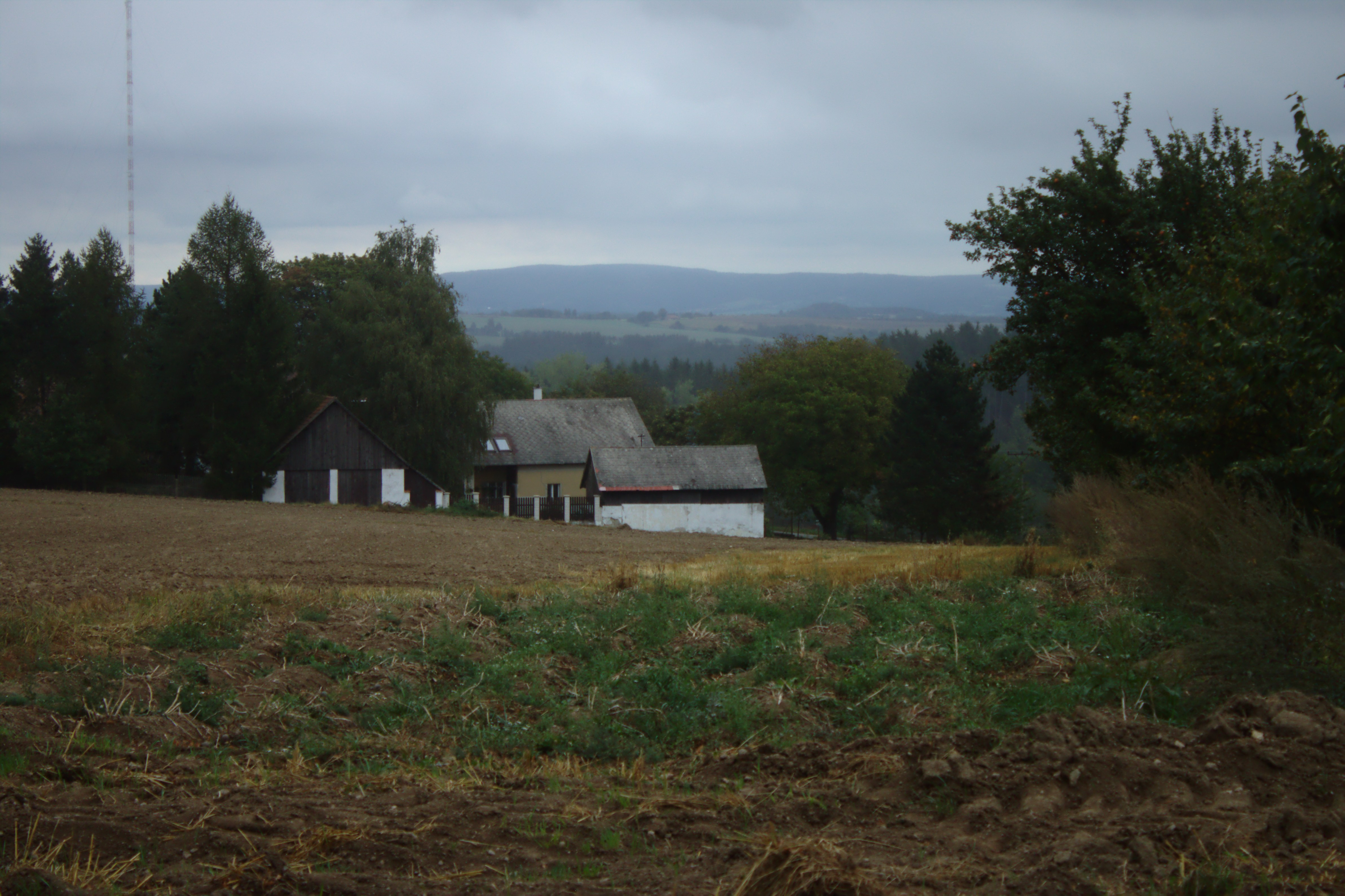 View of the village of Petrovsko from St. Anne Church, Vysočina Region, CZ